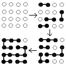 diagrammatic representaton of a step-growth polymerization